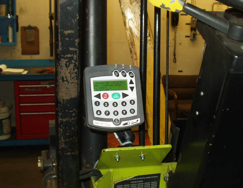 The vehicle-mounted computer that monitors and controls the use of powered industrial trucks